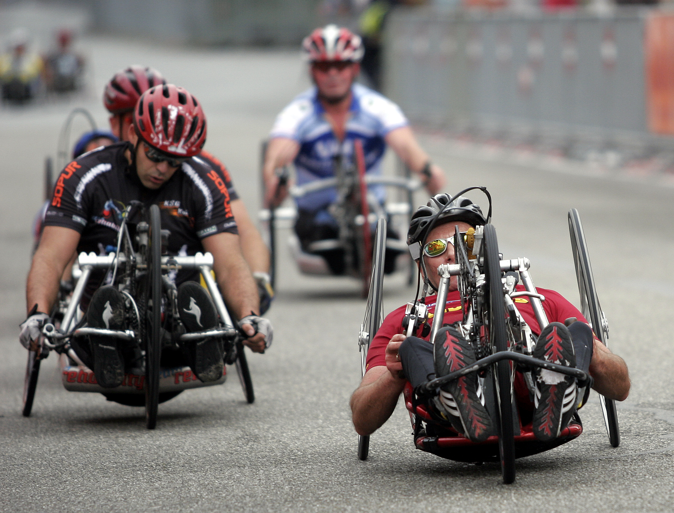 Handbike race in Lorsch (Hesse, Germany). ENtega Grand Prix 2007.